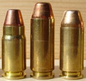 Cartridges: .357SIG; 10mmAUTO; .40S&W